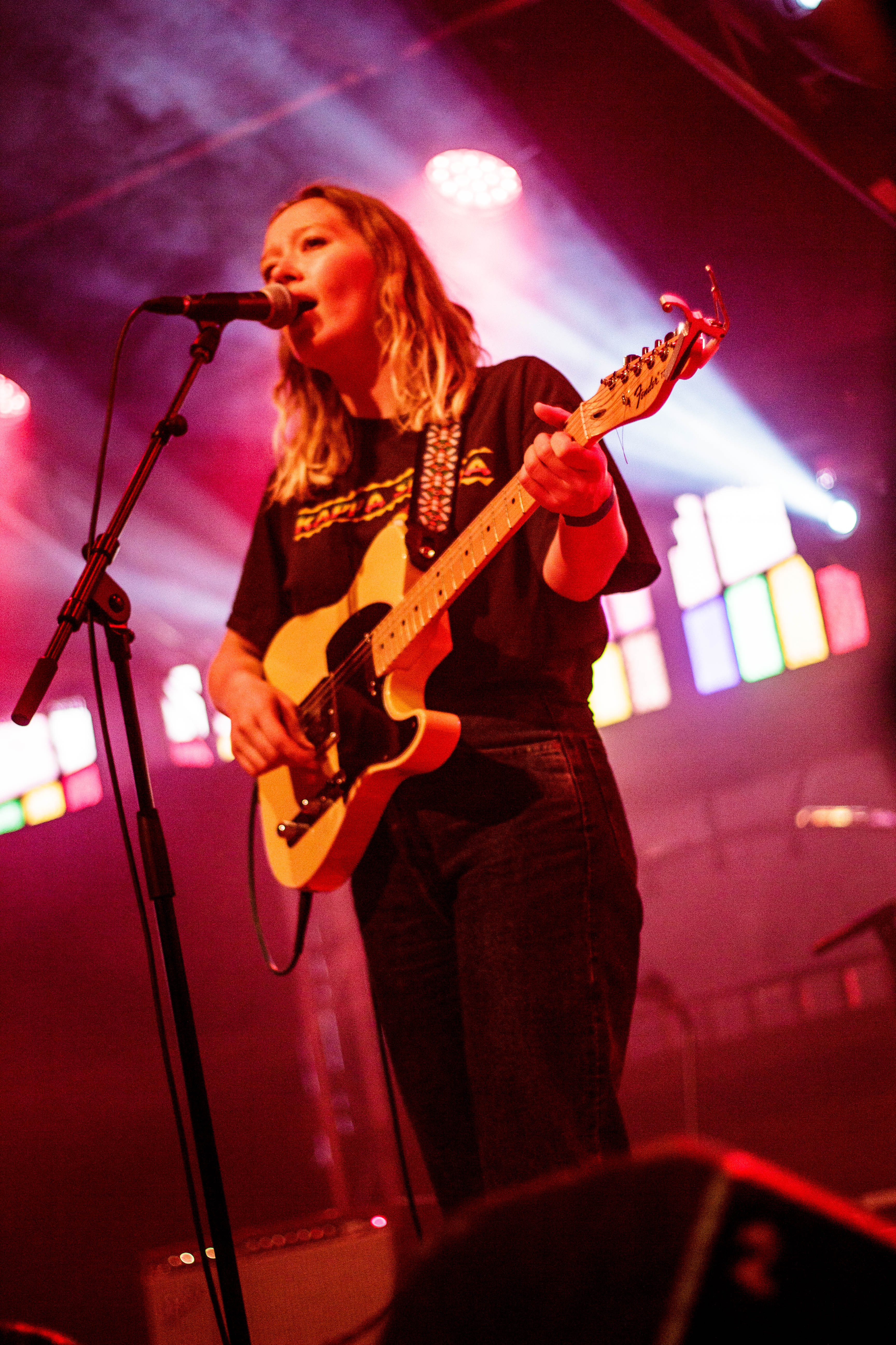 Julia Jacklin at Haldern Pop Festival 2017